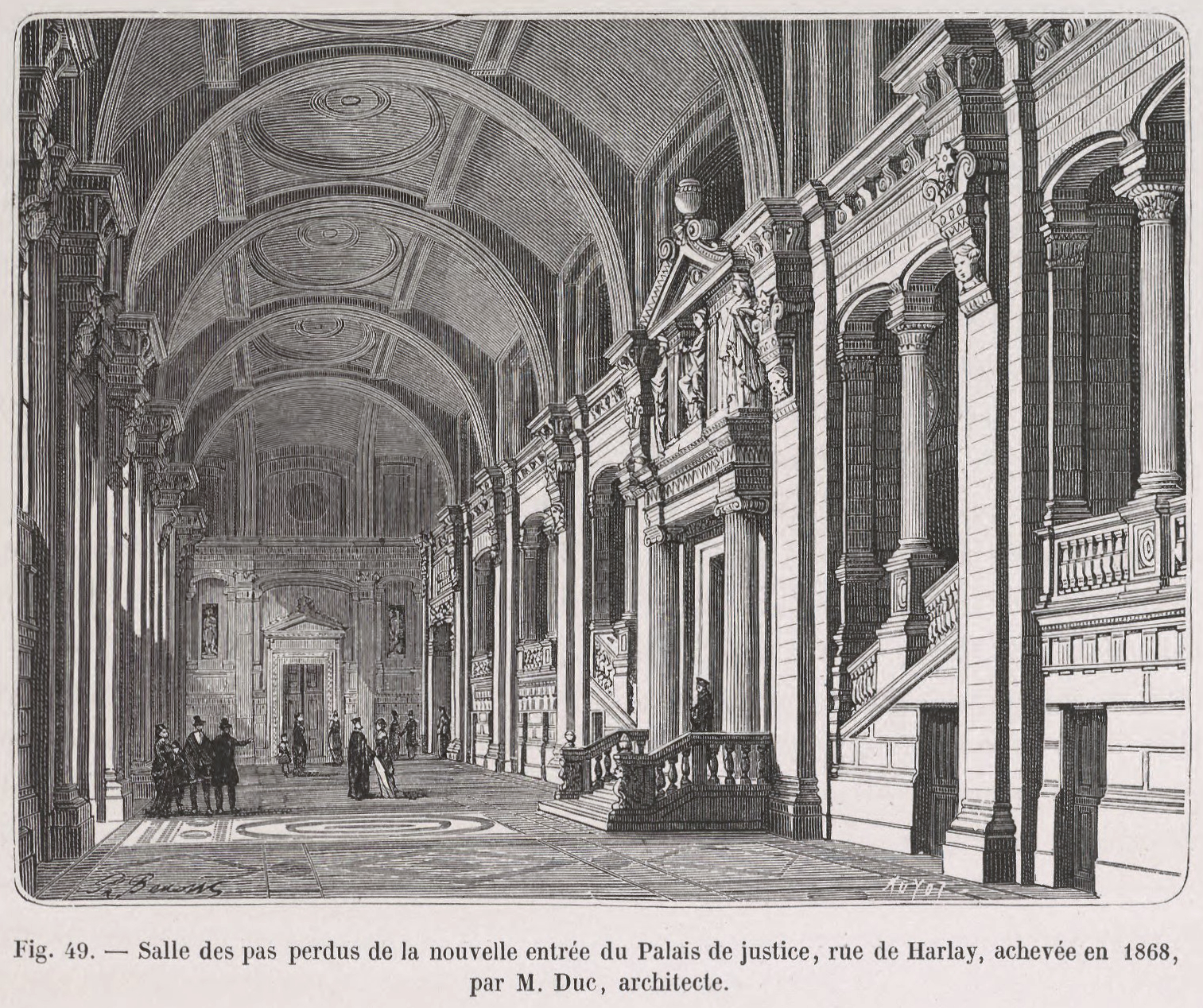 The name of this entranceway - "Salle des pas perdus" - could have two meanings in French. Either it is the room of the "un-lost" or the room of "lost footsteps." The former would signify a remembrance of the dead and the latter would refer refer either to the acoustics of the room, which presumably muffles the sound of footsteps, or the "lost" steps taken around a room while one is waiting. The new Palais was designed by the architect Mr. Duc and completed in 1868.